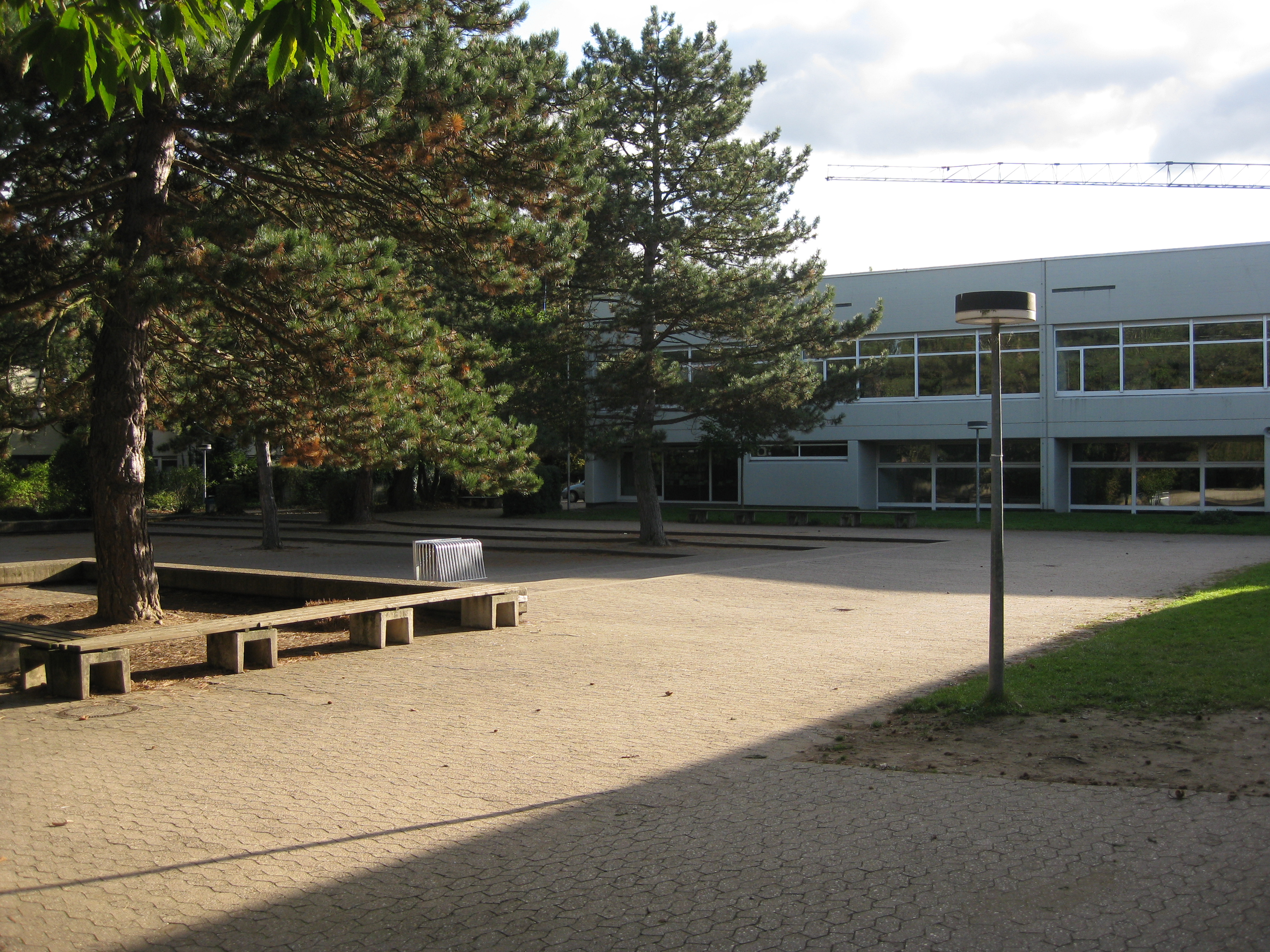 Germany, Bonn-Limperich: buildings and playground of Kardinal-Frings-Gymnasium, a private school.